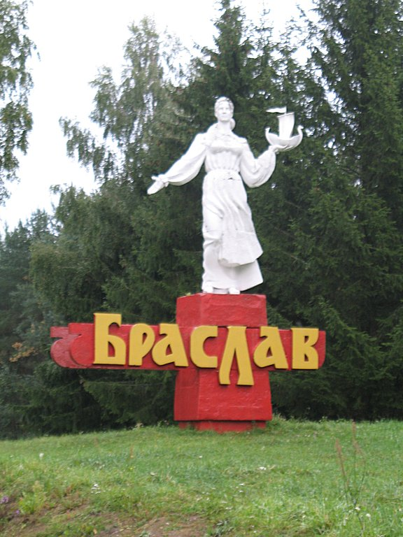 Sign of Braslau (Браслаў, Браслав, Braslav, Braslava, Breslauja), western part of Vit(s)ebsk region (province), Belarus.